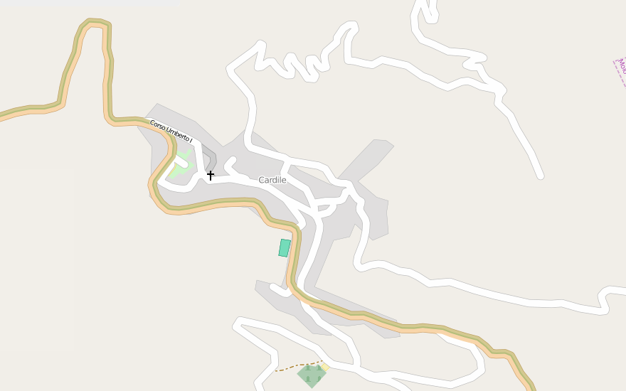 This map may be incomplete, and may contain errors. Don't rely solely on it for navigation.